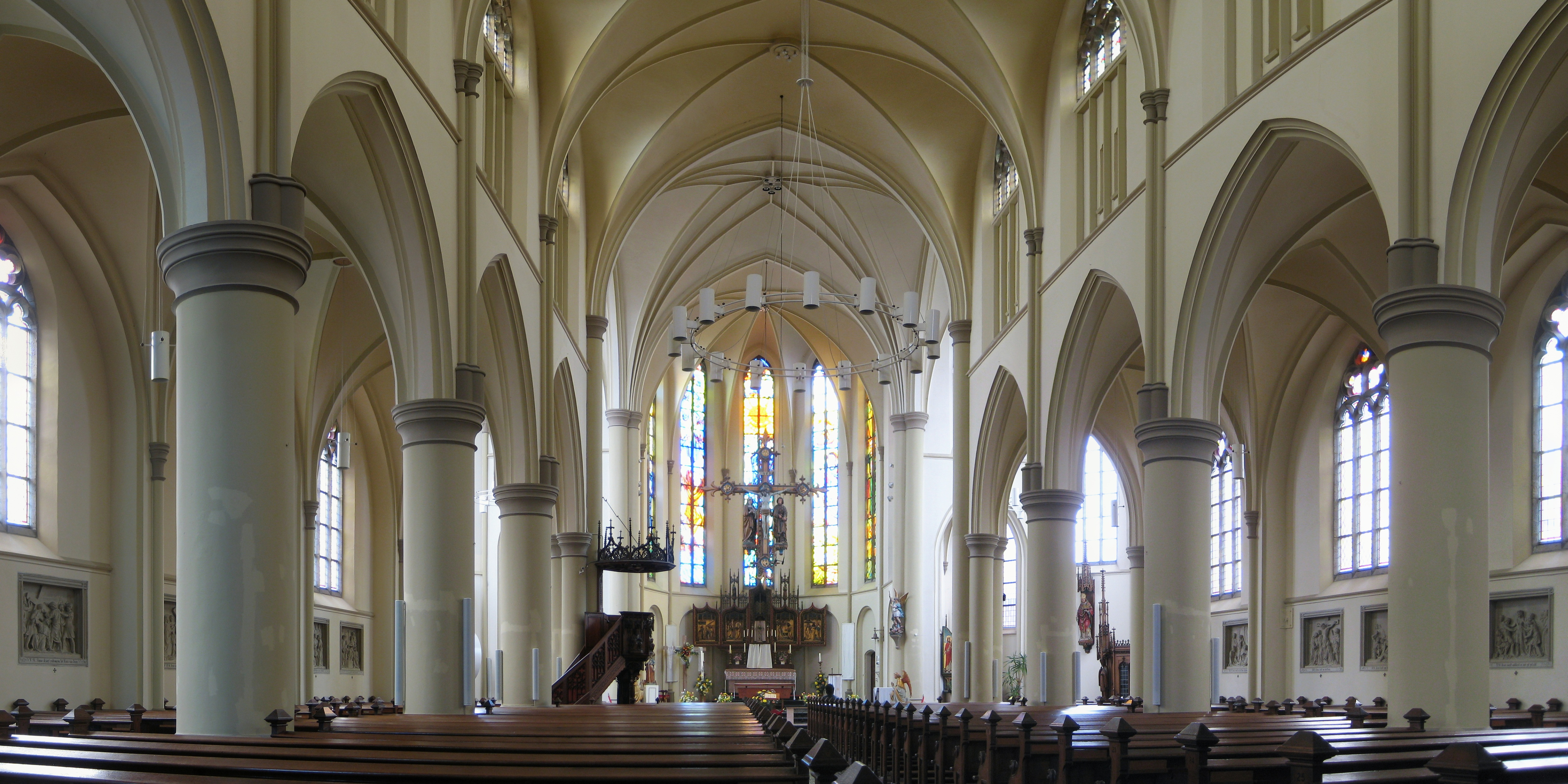 Interior of the Sint-Michaëlkerk (1881) in Harlingen, a city in the Dutch province of Fryslân.